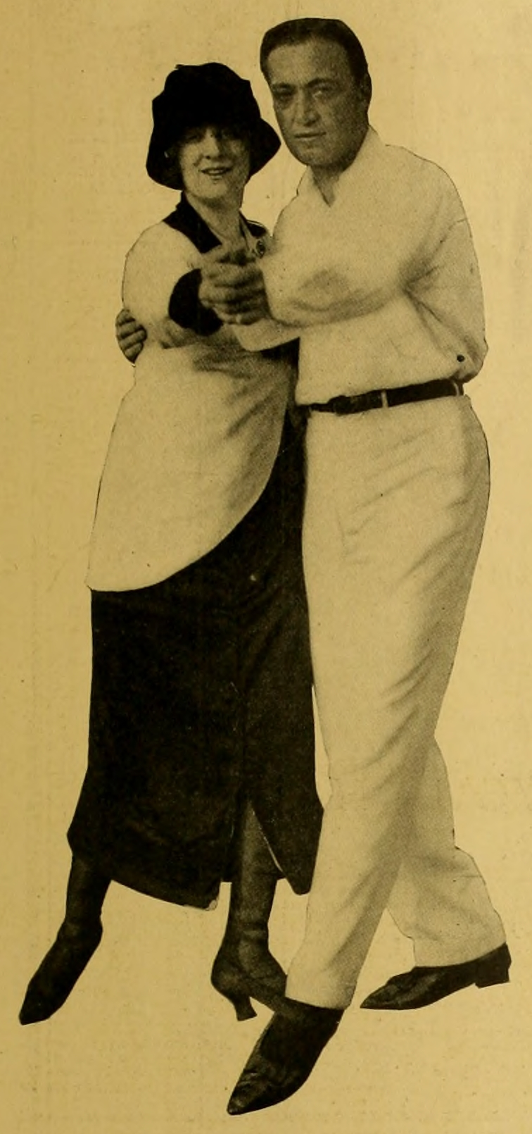 Joan Sawyer, dancing instructor with the Ziegfeld Follies, and actor, film director and dancing instructor Wallace McCutcheon, Jr., dancing in the Kalem Company production Dancing Lessons Pictured, October 1913